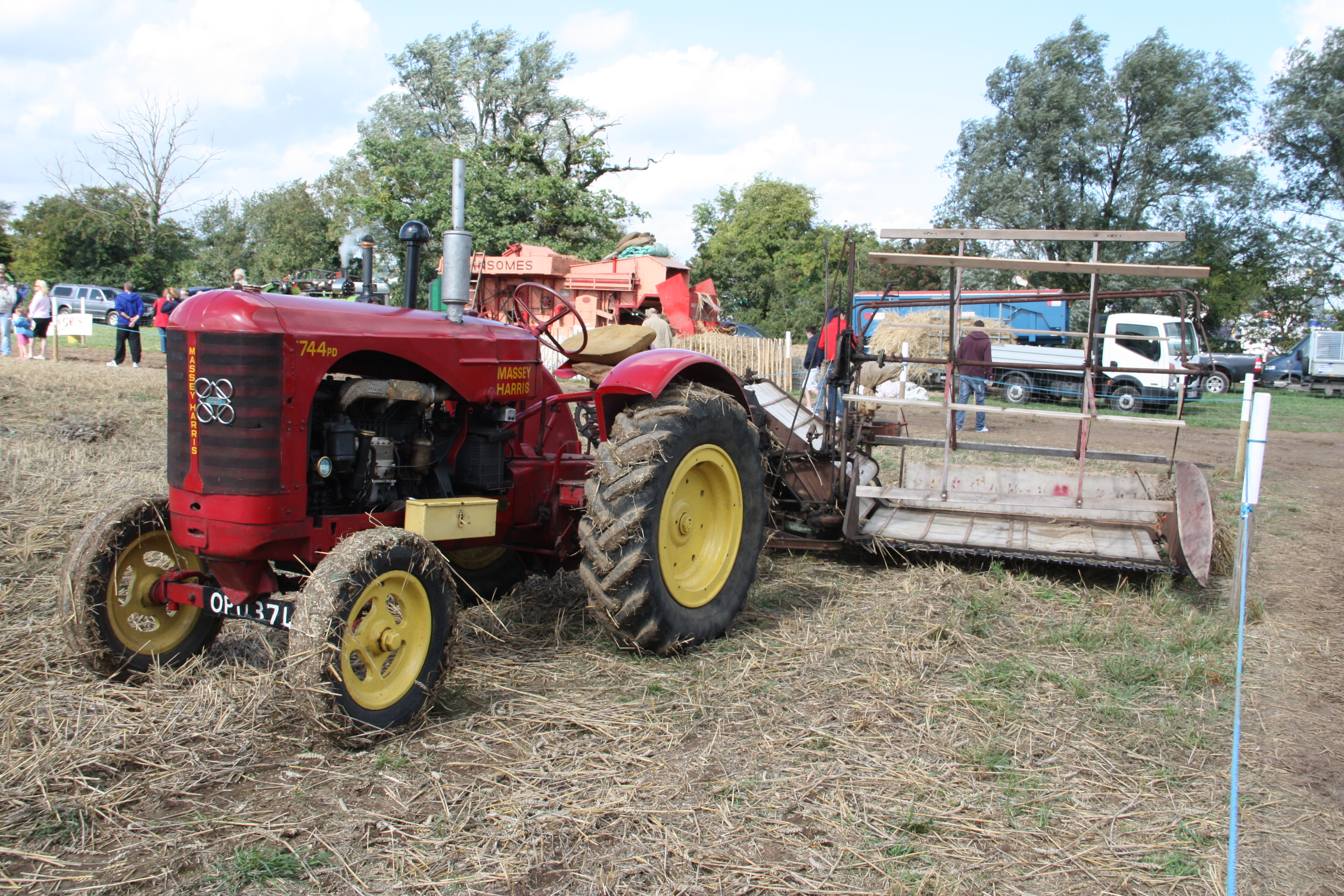 A Massey-Harris 744 PD tractor with a 6 ft cut Massey-Harris reaper-binder at the 2011 Essex Country Show at Barleylands Farm Museum, England; a Ransomes threshing machine in the background